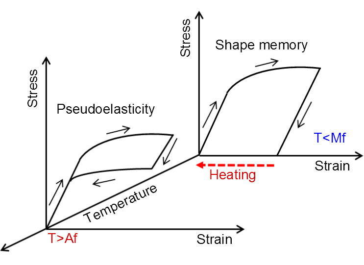 A schematic demonstration of difference, when a stress is applied to SMA in the martensite (T Af).